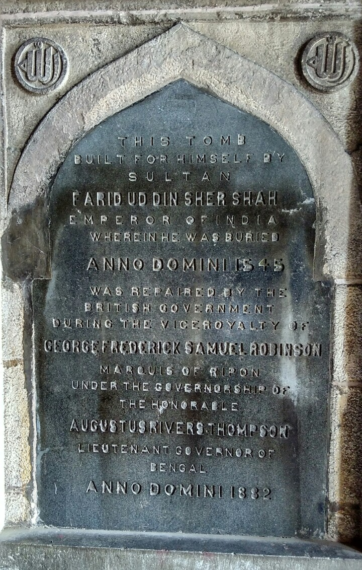 Old Plaque